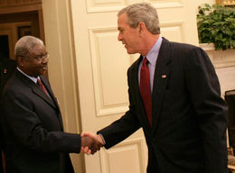 Mozambique's president Armando Guebuza visiting George W. Bush at the Oval Office, June 13, 2005